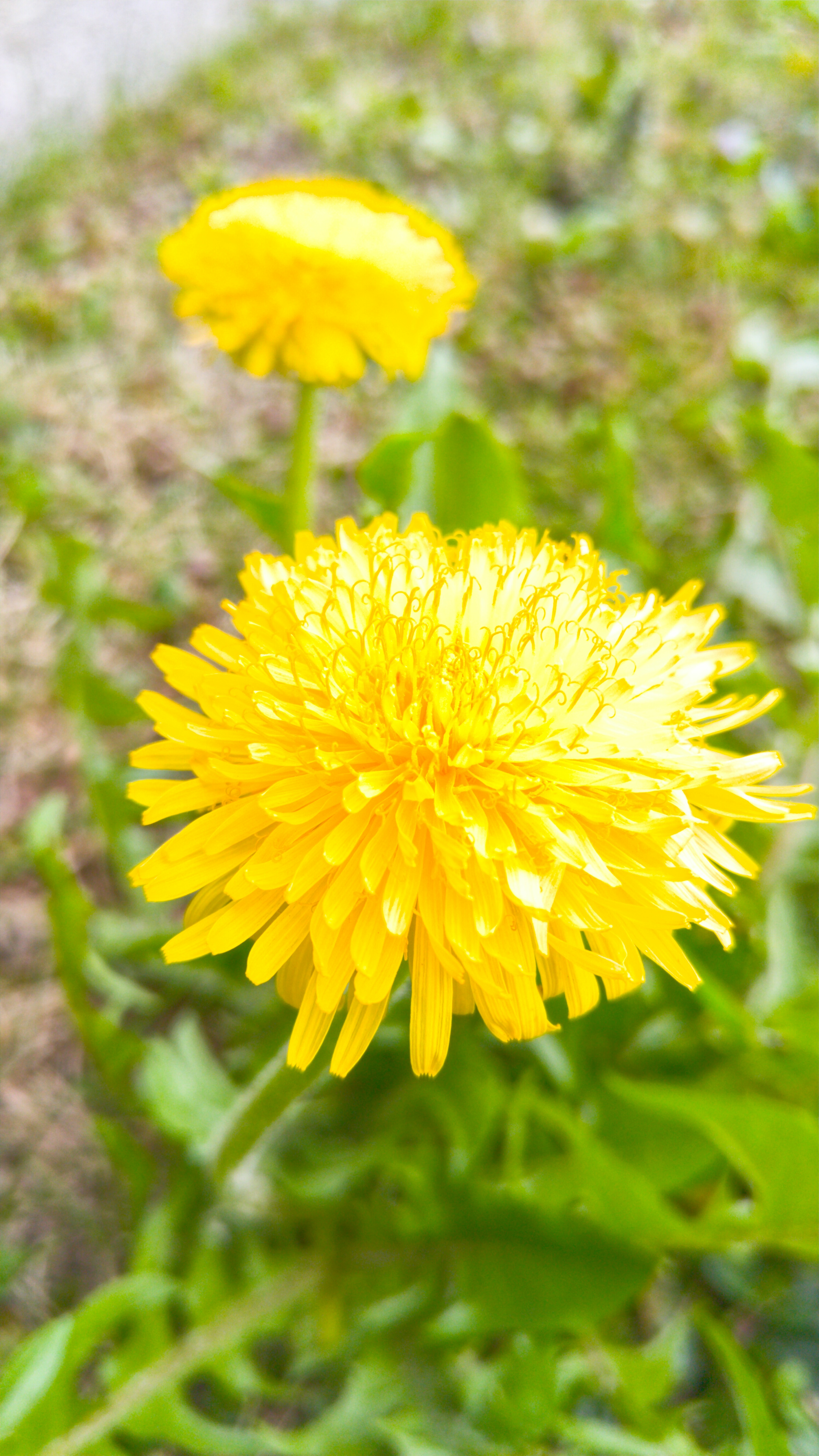 Taraxacum officinale in spring.